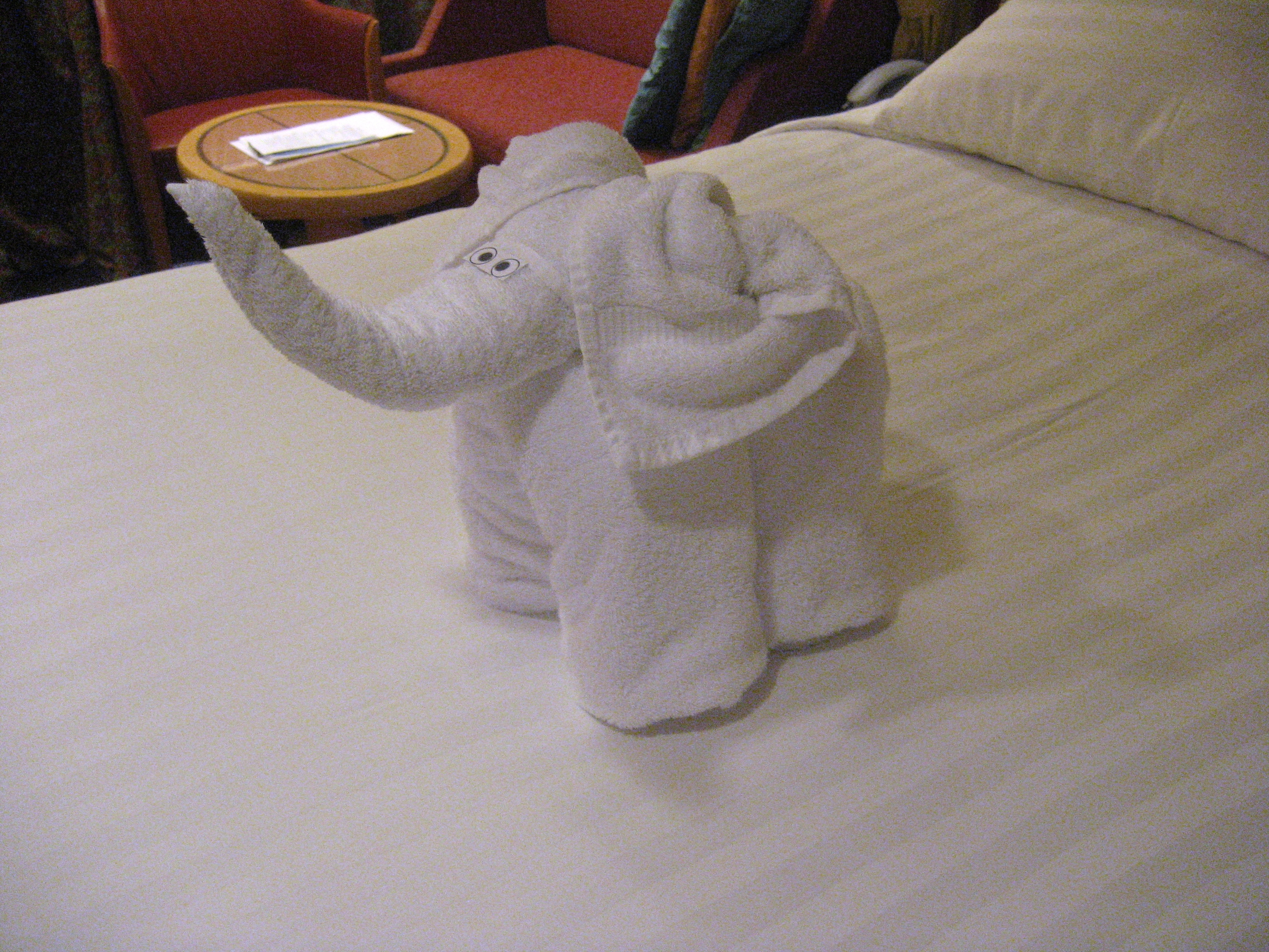 An elephant towel animal from Holland America Cruise Lines.